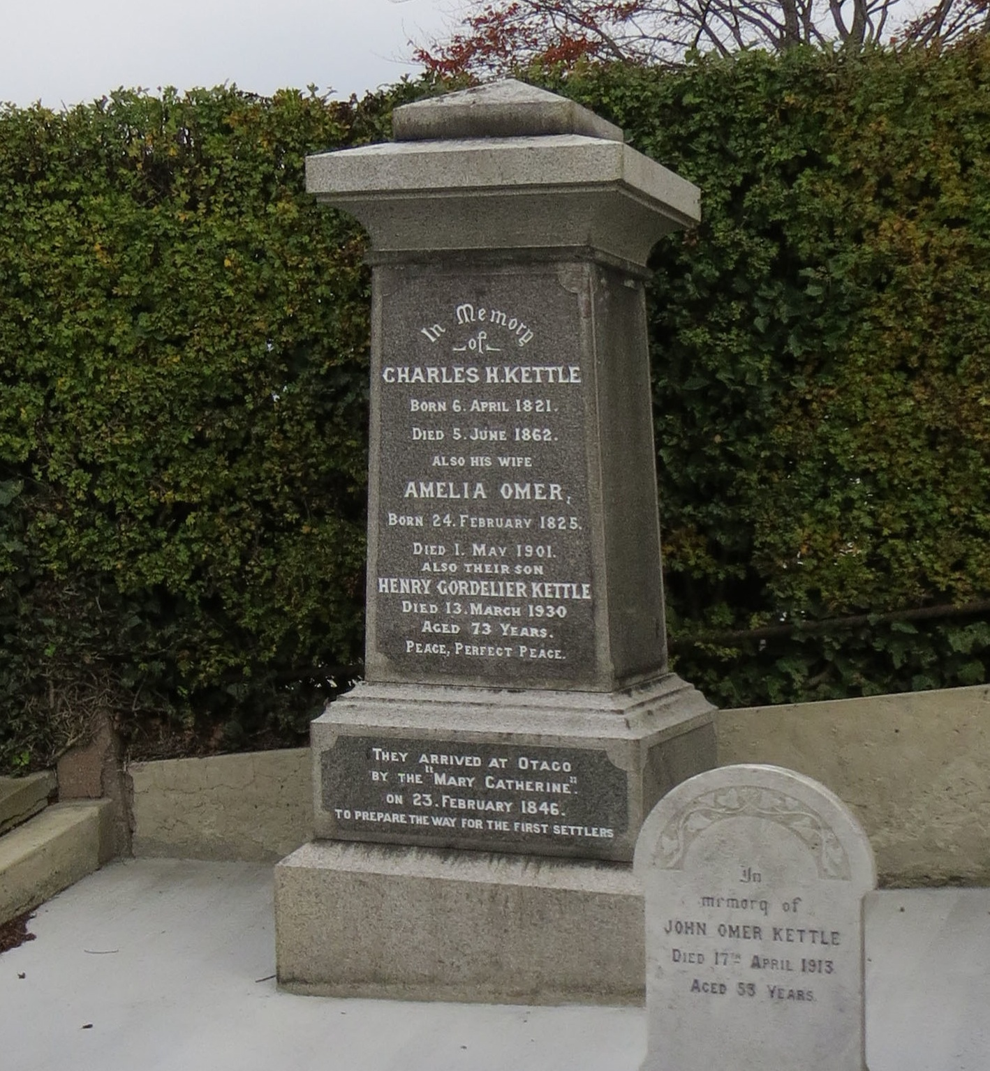 Photograph of the tomb of Charles Kettle in Dunedin Southern Cemetery, photographed on 25 April 2015.